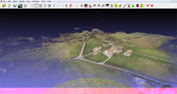 Example of a 3D model of a geographic area done with ARC3D. Visualized within Meshlab.